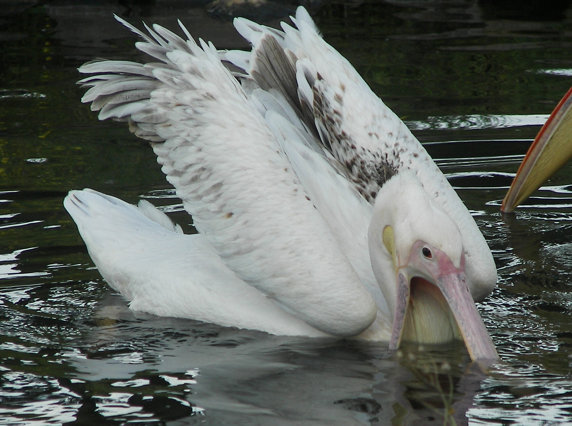 Great white pelican (Pelecanus onocrotalus) in Artis Amsterdam Zoo, trying to catch fish